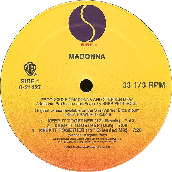 A-side label of U.S. vinyl release of "Keep It Together" by Madonna